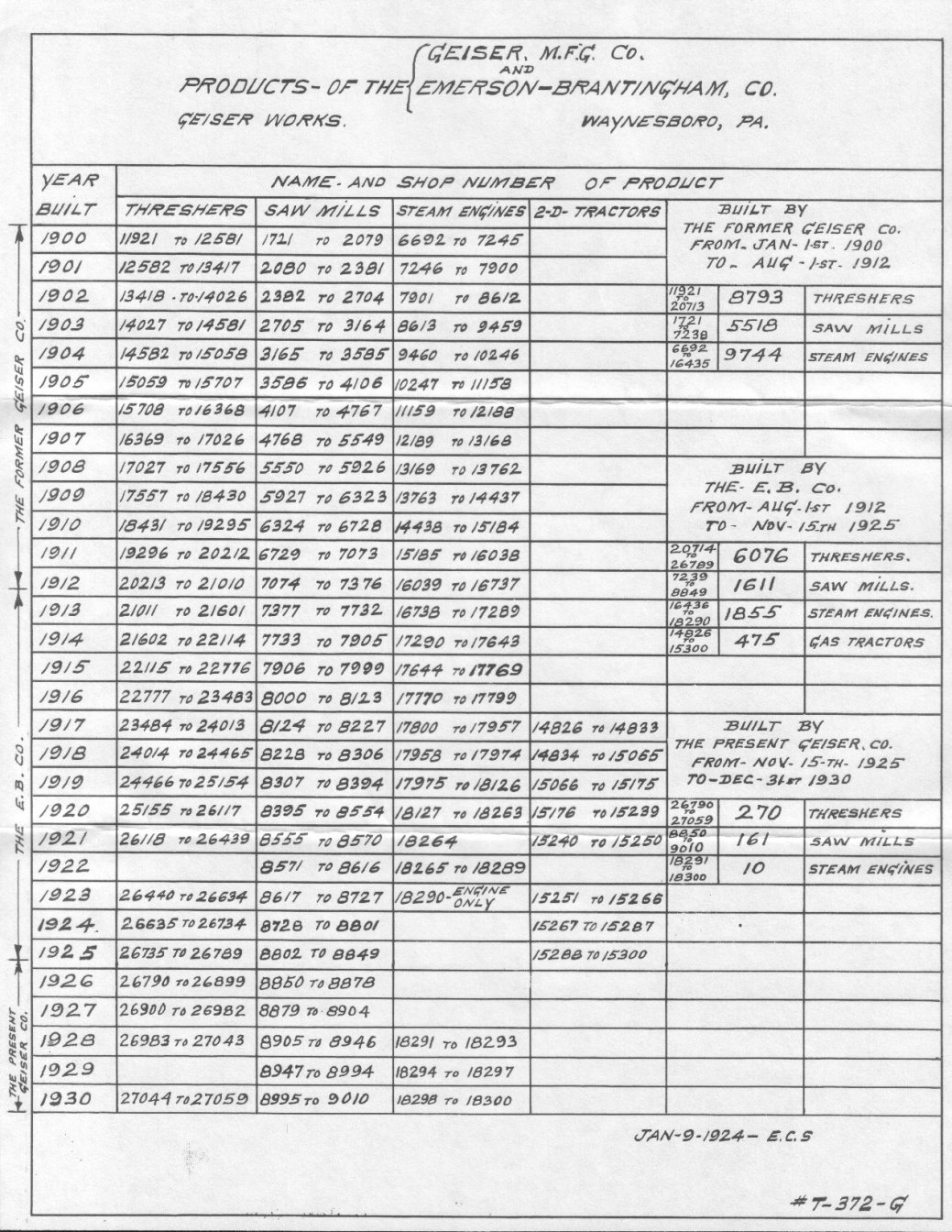 a catalog from Geiser manufacturing